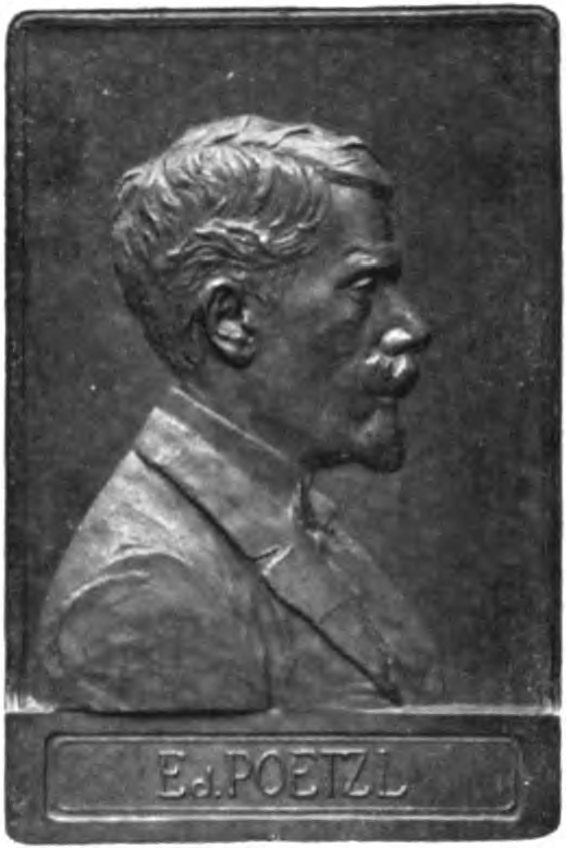 Eduard Pötzl (1851-1914), Austrian journalist and writer